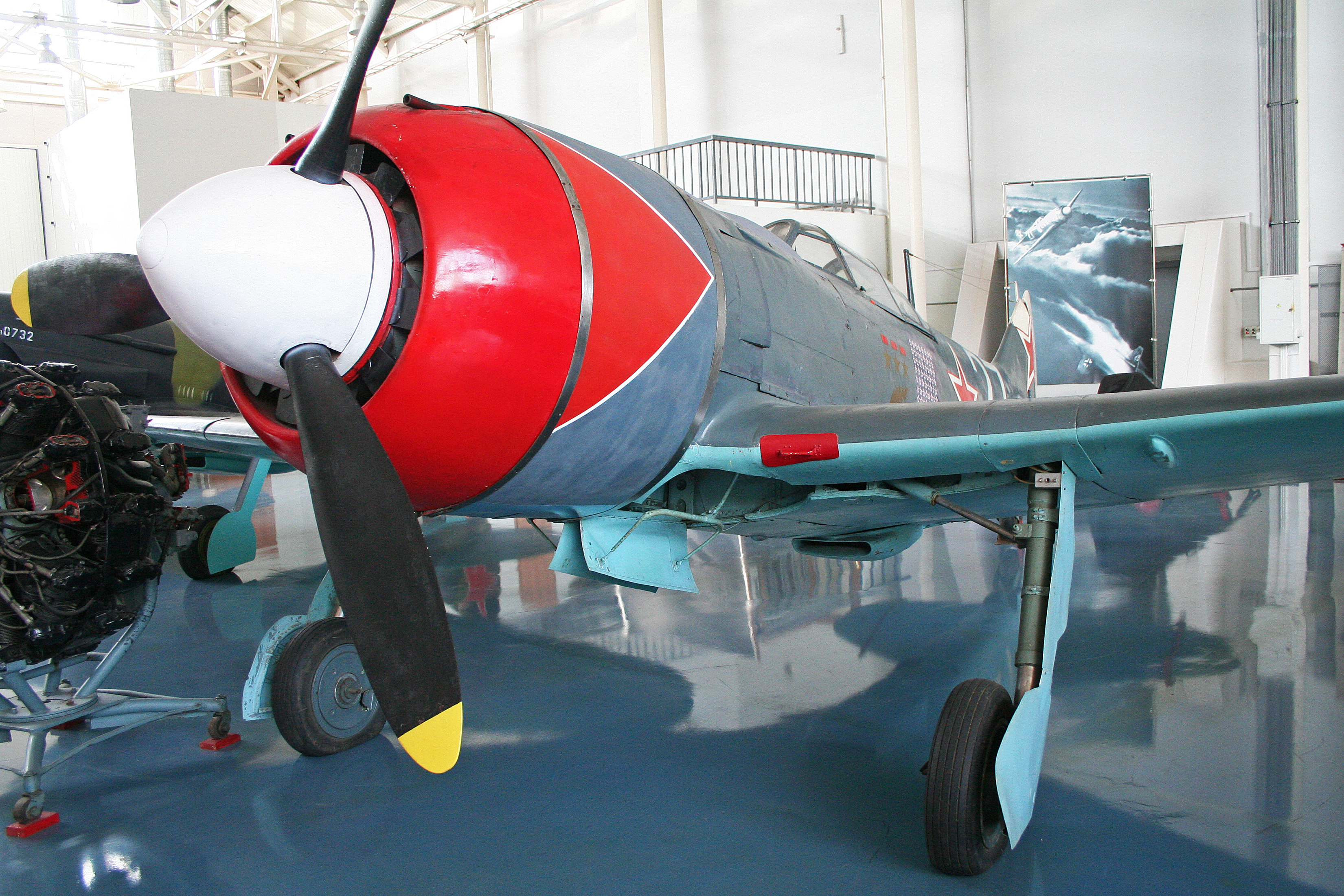 This is a very significant aeroplane. It is the genuine '27 white' flown by Soviet ace Ivan Kozhedub. Kozhedub is regarded as the best Soviet ace of WW2, having a natural gift for deflection shooting. In 330 combat missions he took part in 120 engagements and scored 62 victories including an Me-262! His aircraft is now on display in the new hangar near the museum entrance, which houses many of the museums WW2 types. Russian Air Force Museum. Monino, Russia. 13-8-2012